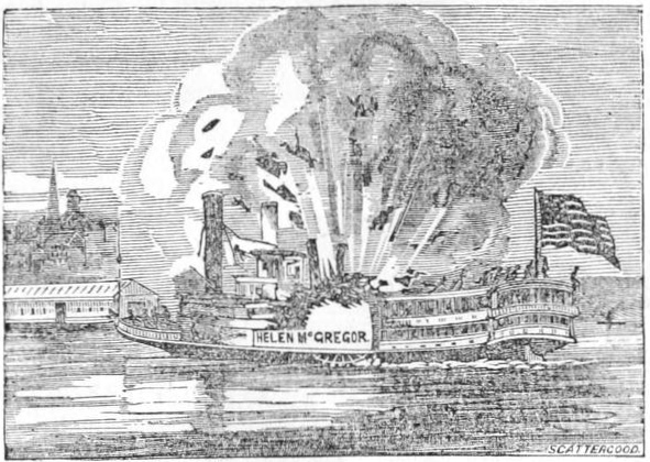 Explosion of the steamboat Helen McGregor, at Memphis TN, 24 February 1830.